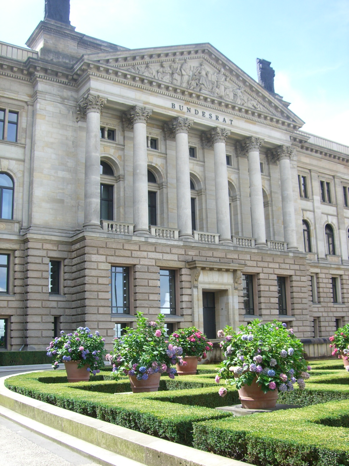 The Bundesrat in Berlin